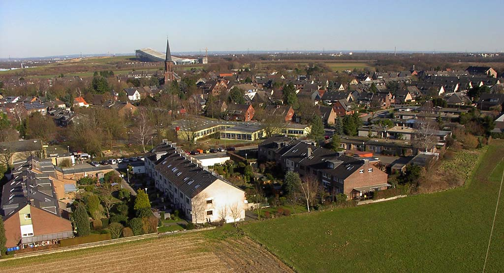 Kite Aerial Photography of Neuss-Grefrath